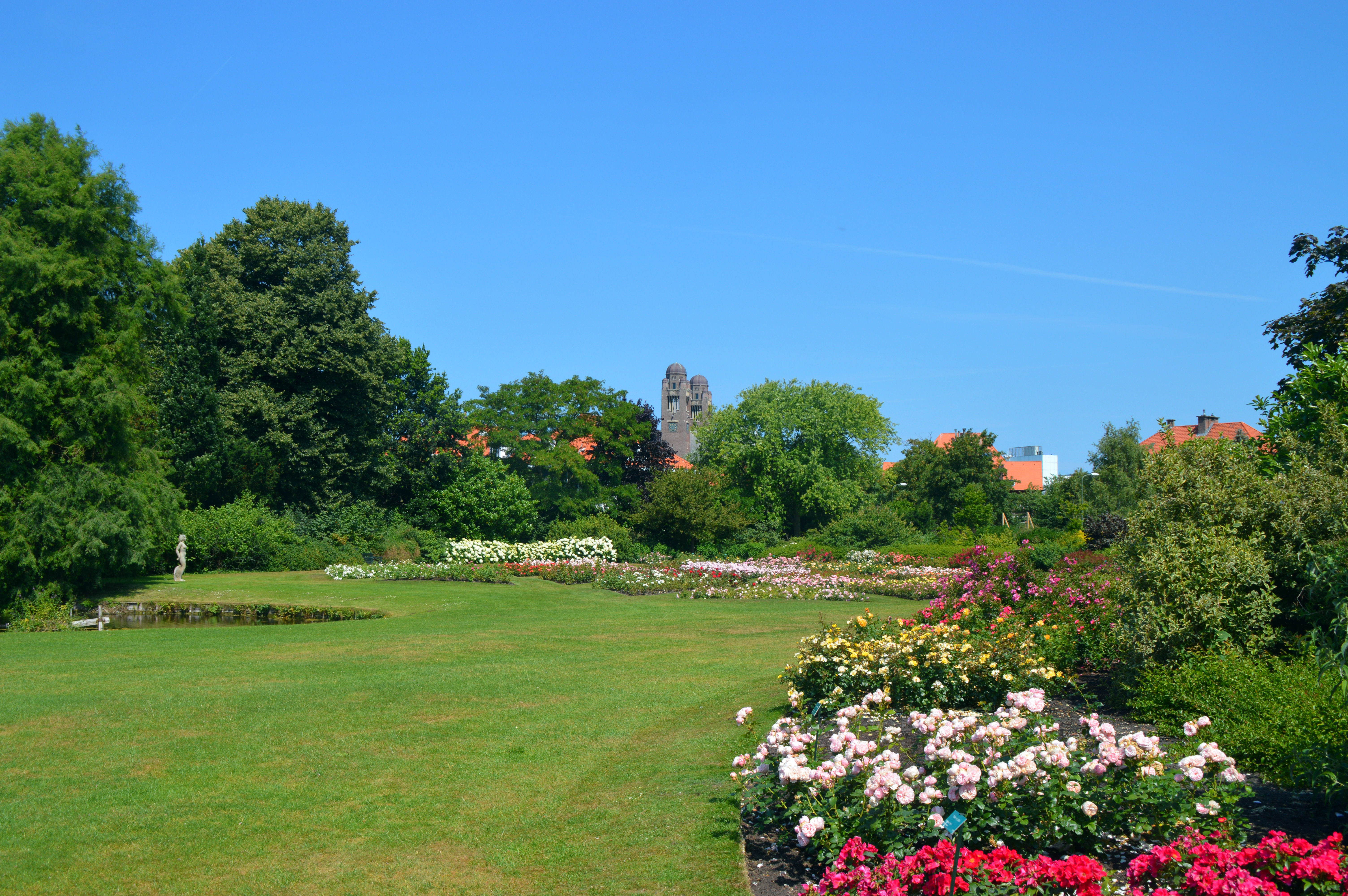 Rose beds in the Rosarium of the Westbroekpark. In the background the New Bath Chapel. the Hague